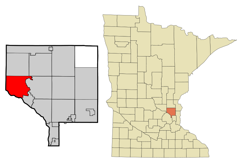 This map shows the incorporated and unincorporated areas in Anoka County, highlighting Ramsey in red. This file has been updated to reflect the recent incorporation of new municipalities.